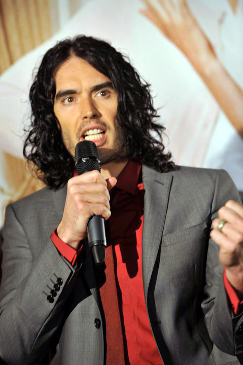 Arthur Russell Brand